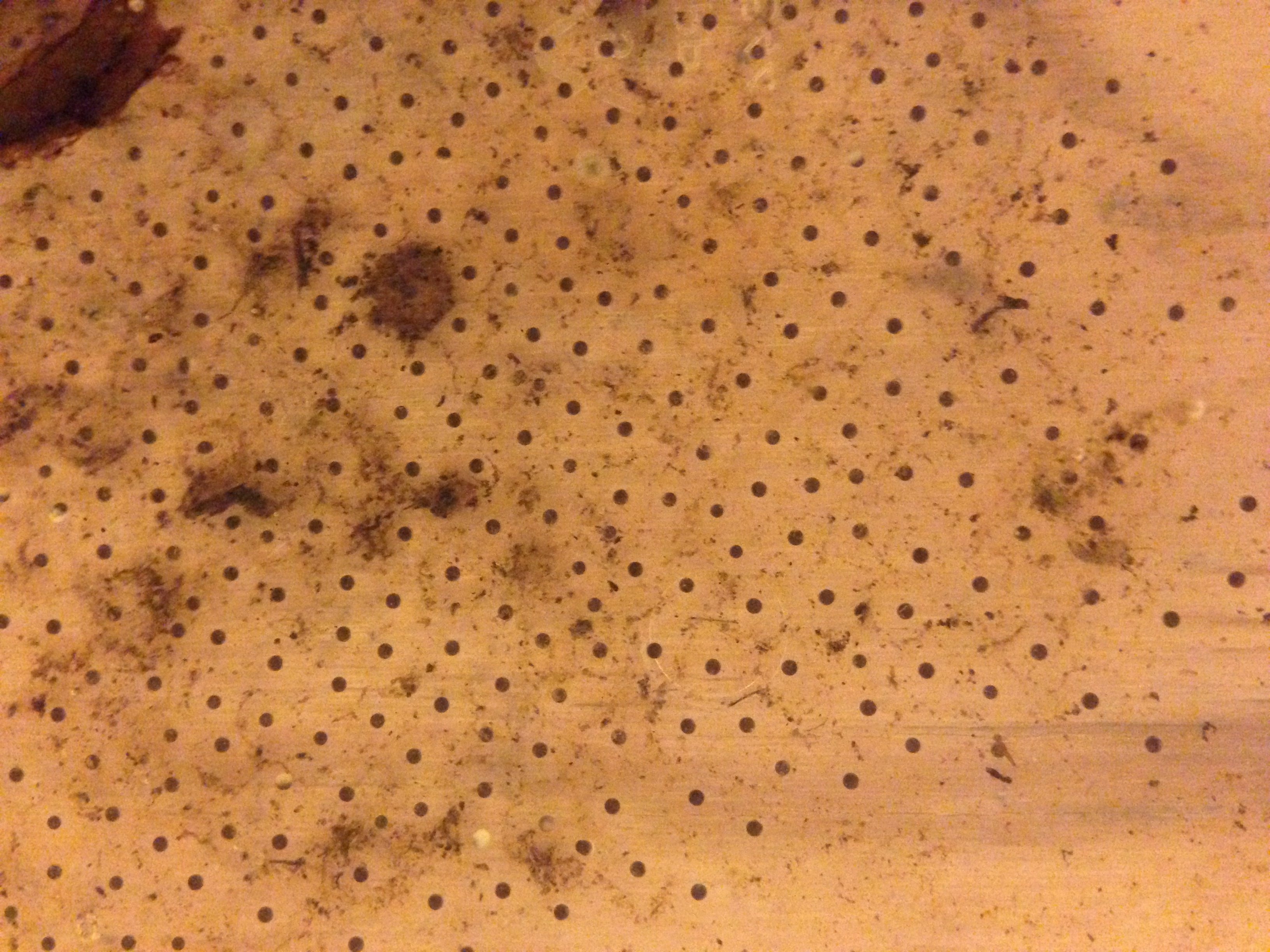 Hyla gratiosa (barking tree frog) eggs at the University of Mississippi Field Station.